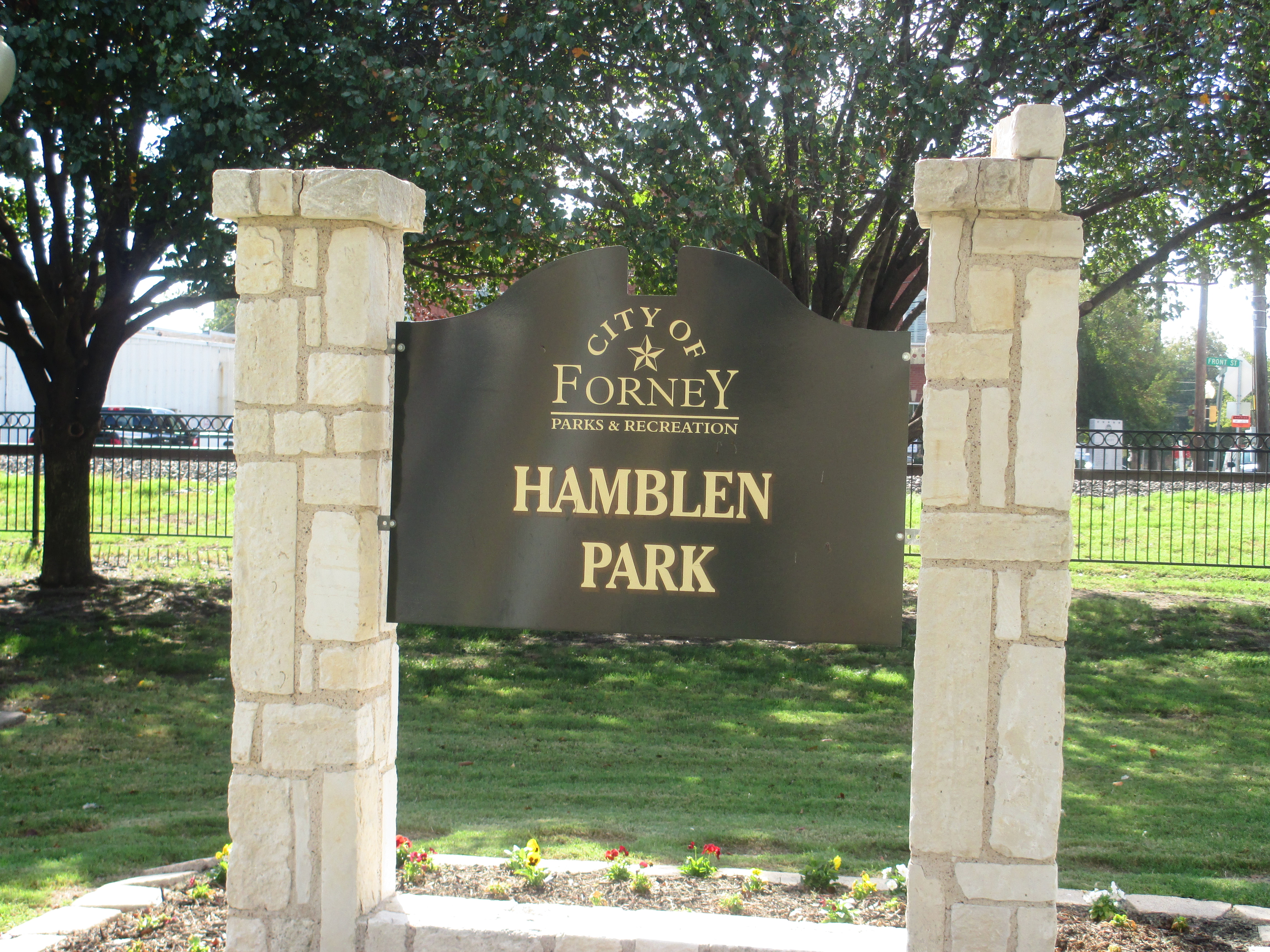 I took photo of Hamblen Park sign in Forney, TX, with Canon camera.